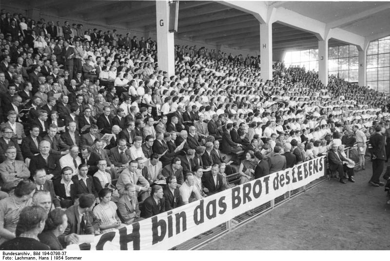 Billy Graham in Duisburg, Sommer 1954